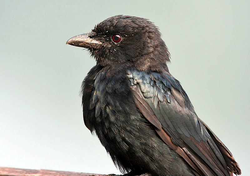 Ashy Drongo Dicrurus leucophaeus in Kolkata, West Bengal, India.